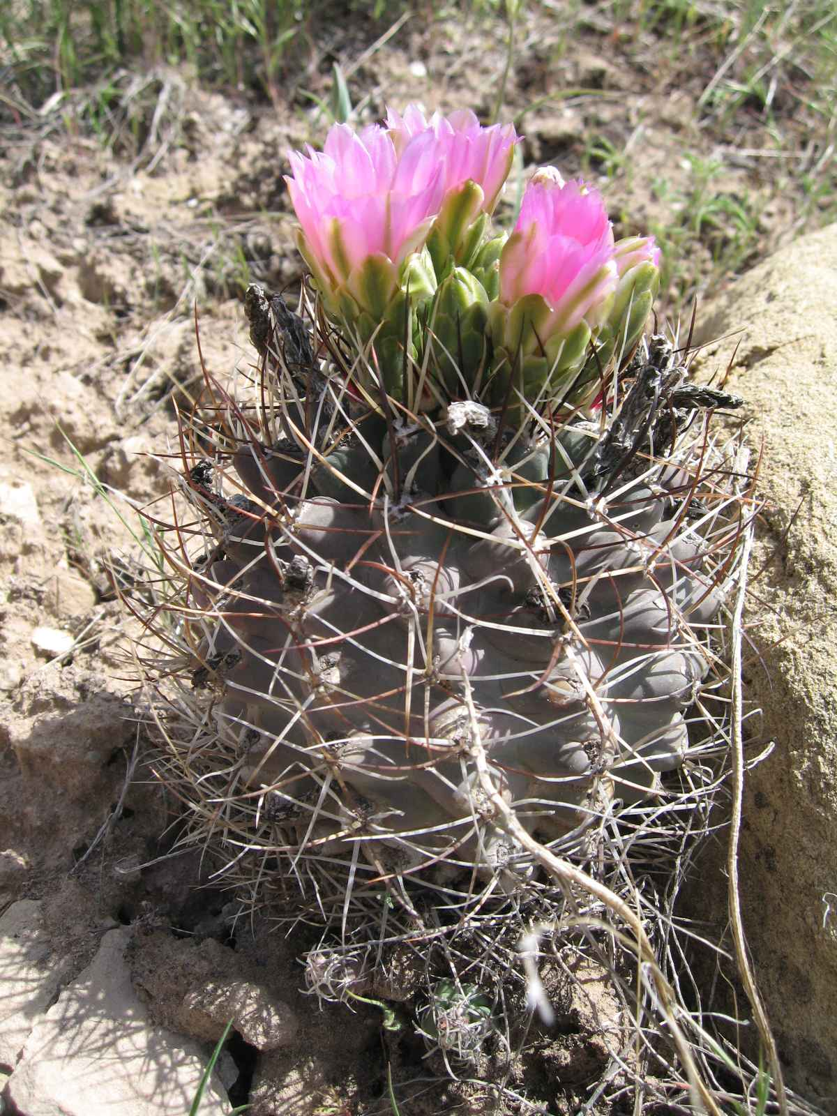 Image title: Colorado hookless cactus (Sclerocactus glaucus) Image from Public domain images website